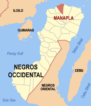 Map of Negros Occidental showing the location of Manapla